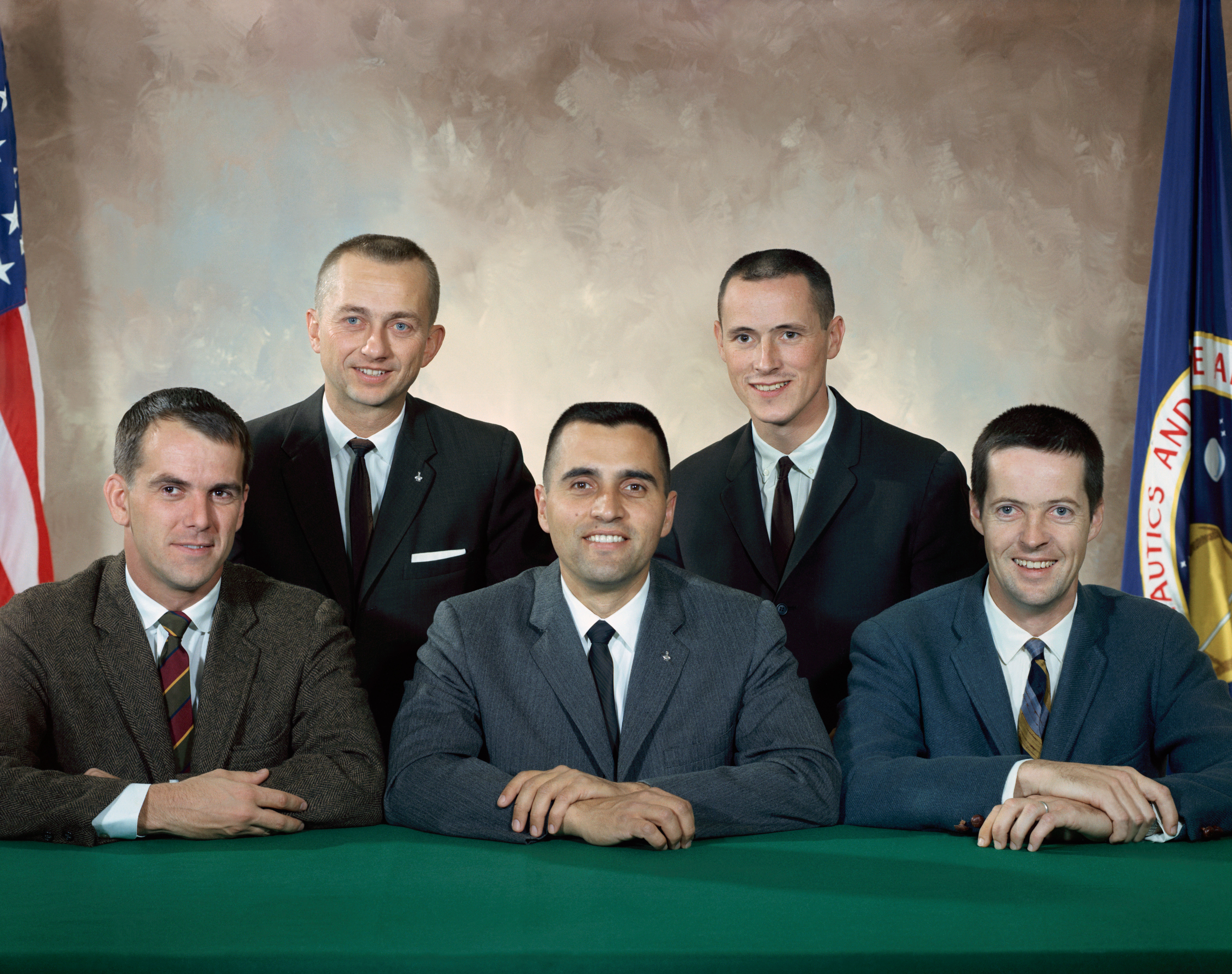 Portrait photograph, five 5 Scientist-Astronauts whose selection was announced by NASA, 06/29/1965. Front row, L-R: F. Curtis Michel Physicist; Harrison H. Schmitt Astrogeologist; and, Dr. Joseph P. Kerwin Physician. Back row, L-R: Owen K. Garriot Physicist; and, Edward G. Gibson Physicist. Manned Spacecraft Center, Houston, Texas